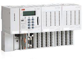 ABB Freelance AC 700F Controller